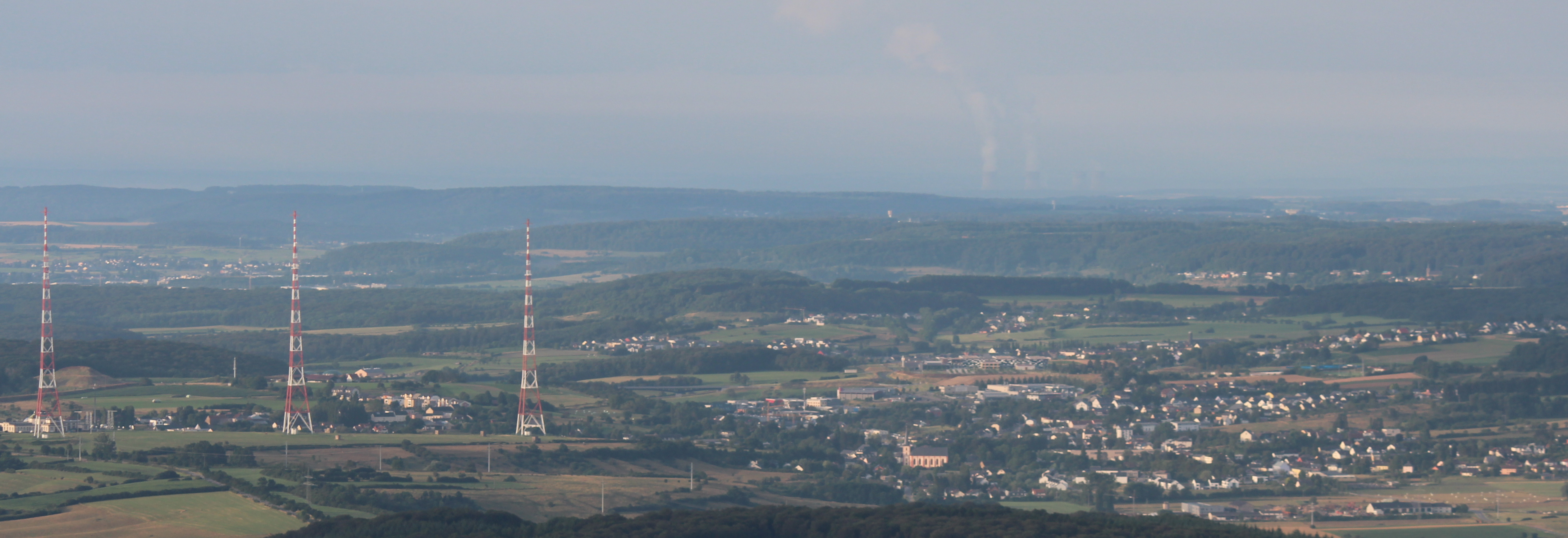 panoramic view of Junglinster, with BCE transmitters (Radio Luxembourg)